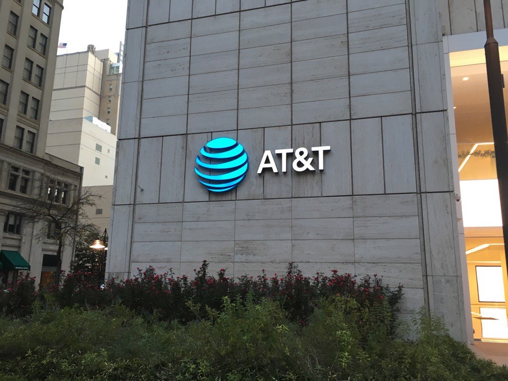 New AT&T logo in Dallas, TX